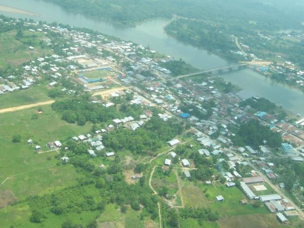 A view of Malinau City from the air.